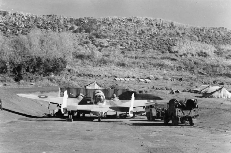 Royal Air Force Coastal Command- No. 247 Group Operations in the Azores, 1943-1945. A Lockheed Hudson Mark III of No. 233 Squadron RAF Detachment, undergoes servicing in a dispersal at Lagens.